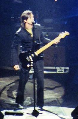 Juanes performing at the Nokia Theater in Dallas, Texas, United States (cropped)